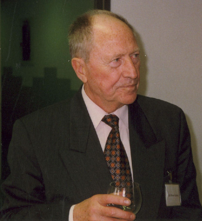 the German politician Werner Ludwig (2000)